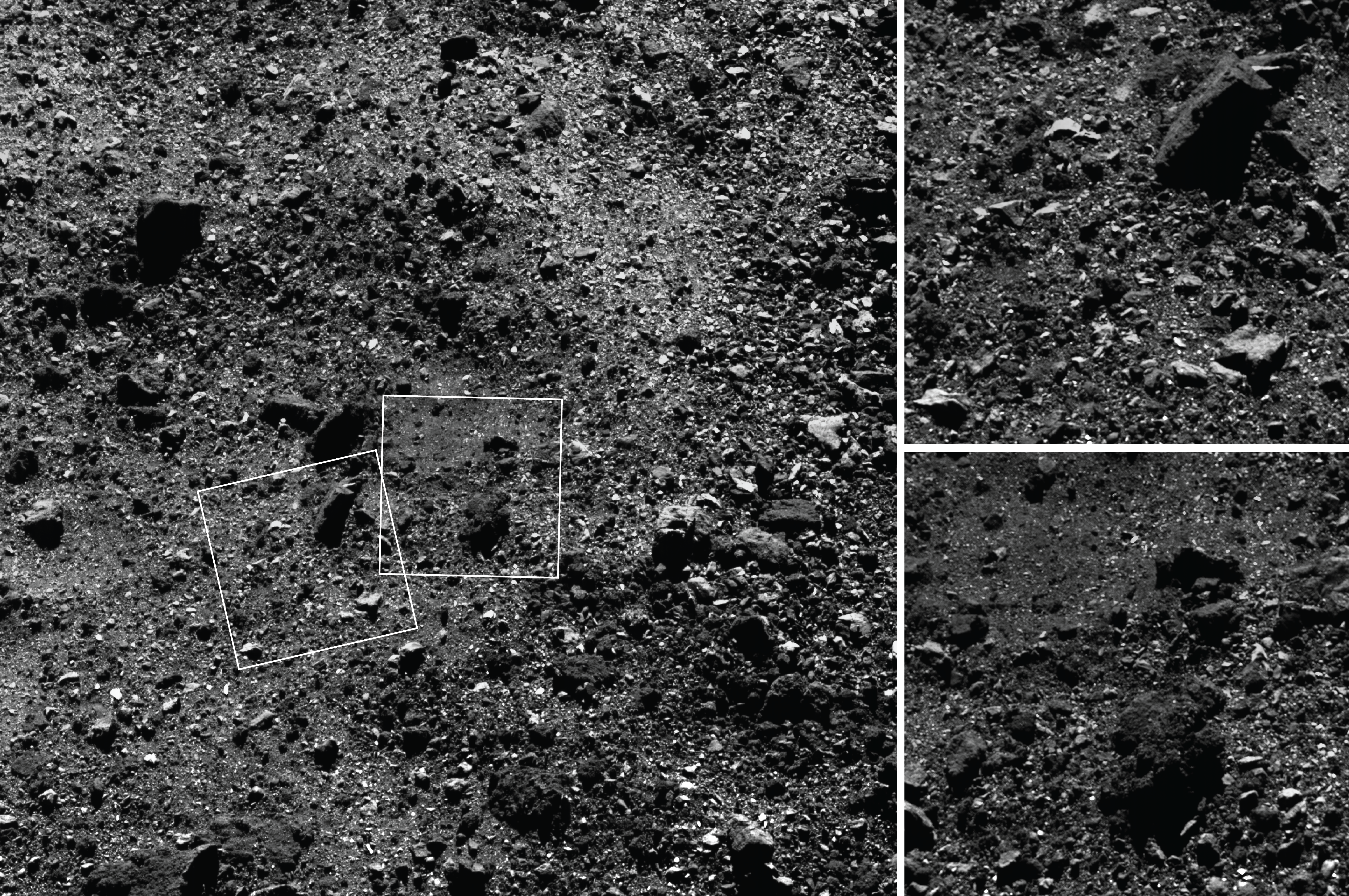 This trio of images acquired by NASA’s OSIRIS-REx spacecraft shows a wide shot and two close-ups of a region in asteroid Bennu’s northern hemisphere. The wide-angle image (left), obtained by the spacecraft’s MapCam camera, shows a 590-foot (180-meter) wide area with many rocks, including some large boulders, and a “pond” of regolith that is mostly devoid of large rocks. The two closer images, obtained by the high-resolution PolyCam camera, show details of areas in the MapCam image, specifically a 50-foot (15 meter) boulder (top) and the regolith pond (bottom). The PolyCam frames are 101 feet (31 meters) across and the boulder depicted is approximately the same size as a humpback whale. The images were taken on February 25 while the spacecraft was in orbit around Bennu, approximately 1.1 miles (1.8 km) from the asteroid’s surface. The observation plan for this day provided for one MapCam and two PolyCam images every 10 minutes, allowing for this combination of context and detail of Bennu’s surface.